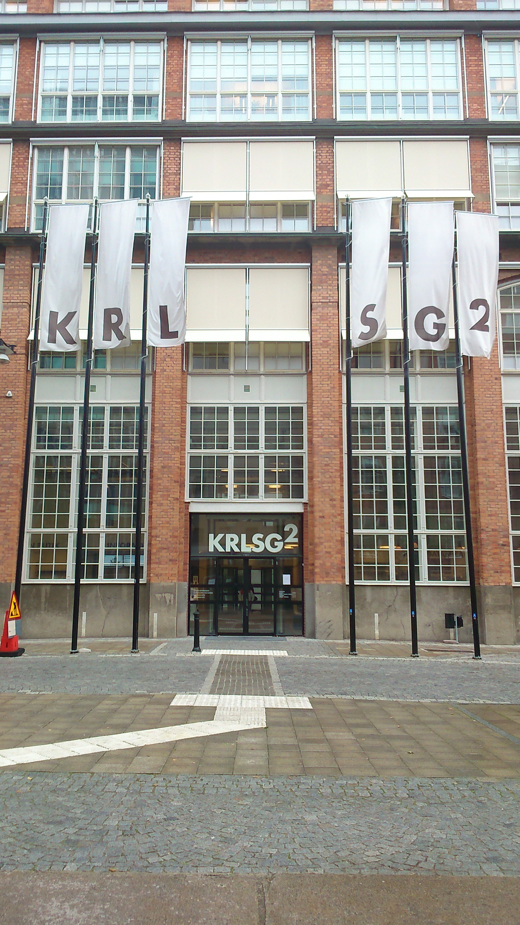 Karlsgatan 2, Västerås, Sweden